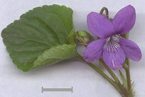 Viola canina flower